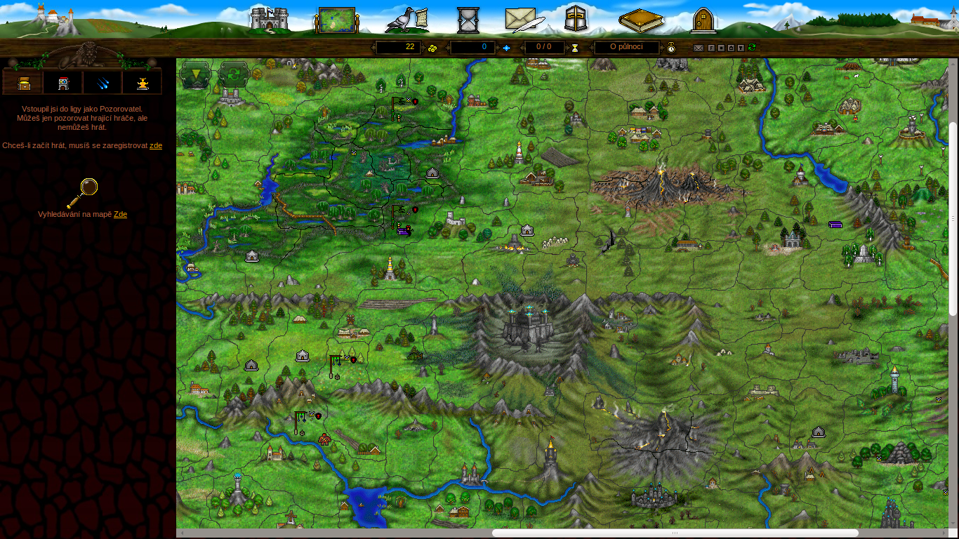 Dark Elf - a standard view